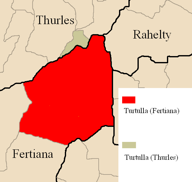 Map highlighting Turtulla townland in Fertiana civil parish